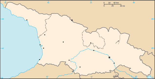 Blank map of of the territory claimed by Georgia. Originally from CIA World Fact Book.